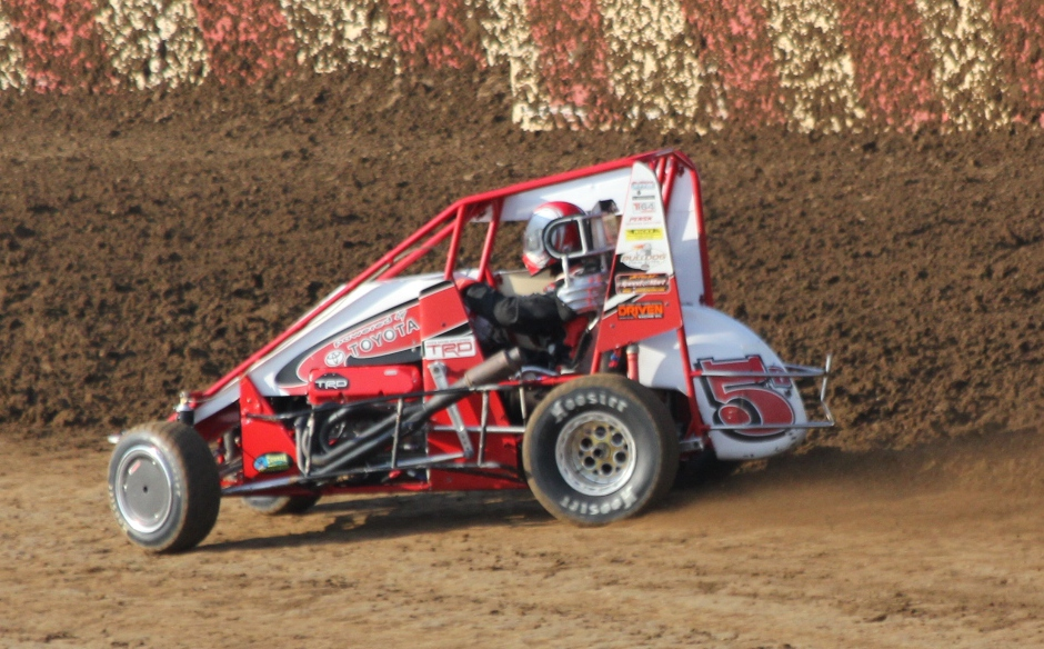 The POWRi Midget Racing midget car of 2014 champion Zack Daum qualifying at Angell Park Speedway.